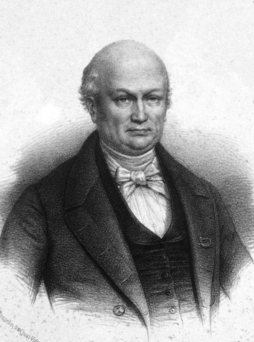 Photograph of lithographic portrait of Étienne Geoffroy Saint-Hilaire (aged about 70).